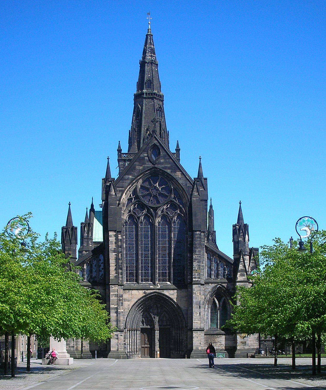 Photo of the western end of Glasgow Cathedral (St Mungo's), taken May 2007